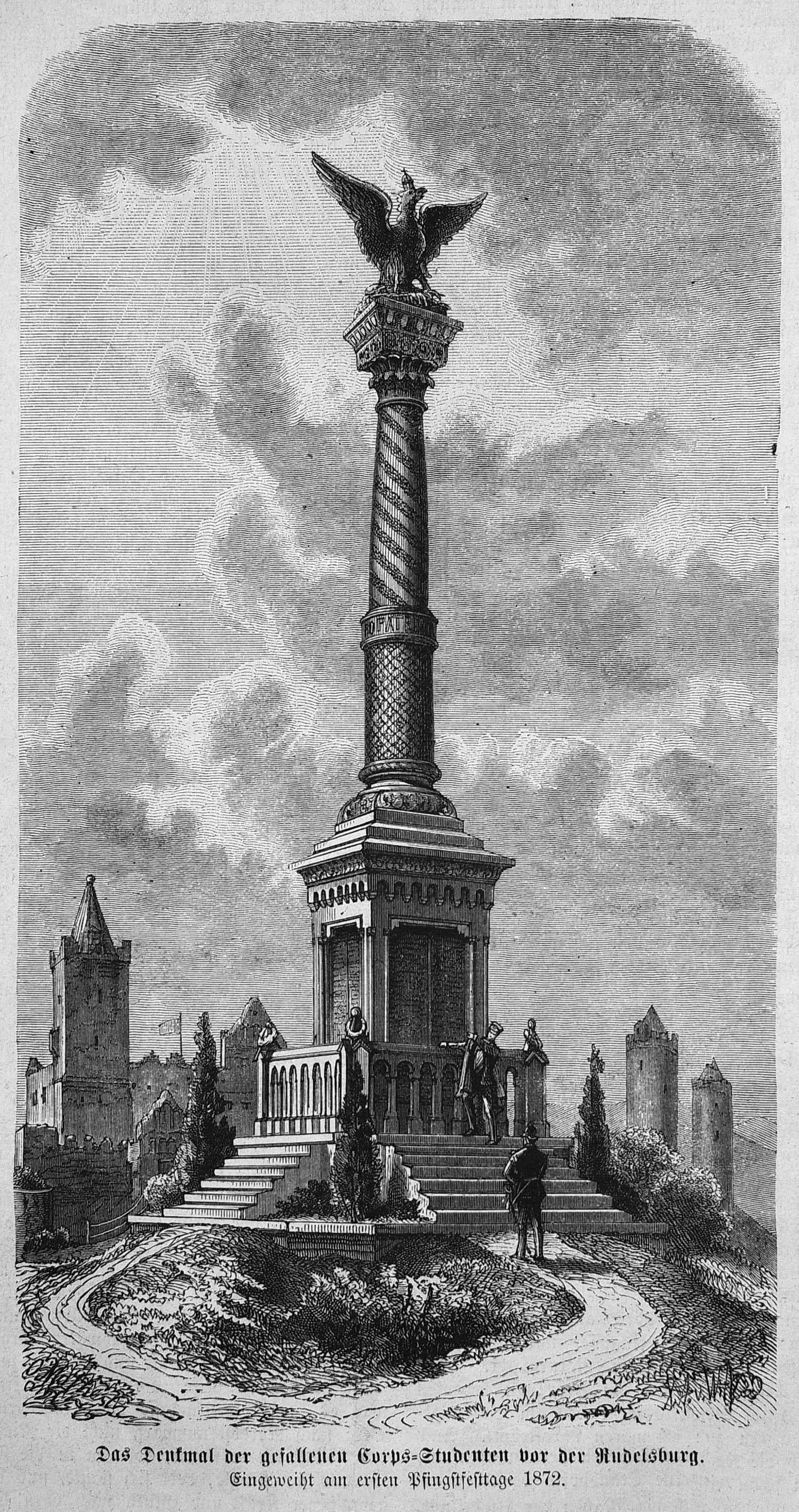 caption: "Das Denkmal der gefallenen Corps-Studenten vor der Rudelsburg. Eingeweiht am ersten Pfingstfesttage 1872."